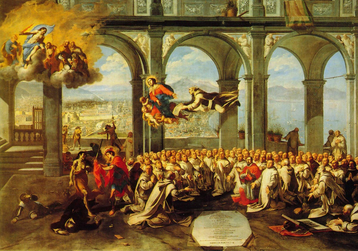 Thanksgiving after the plague.